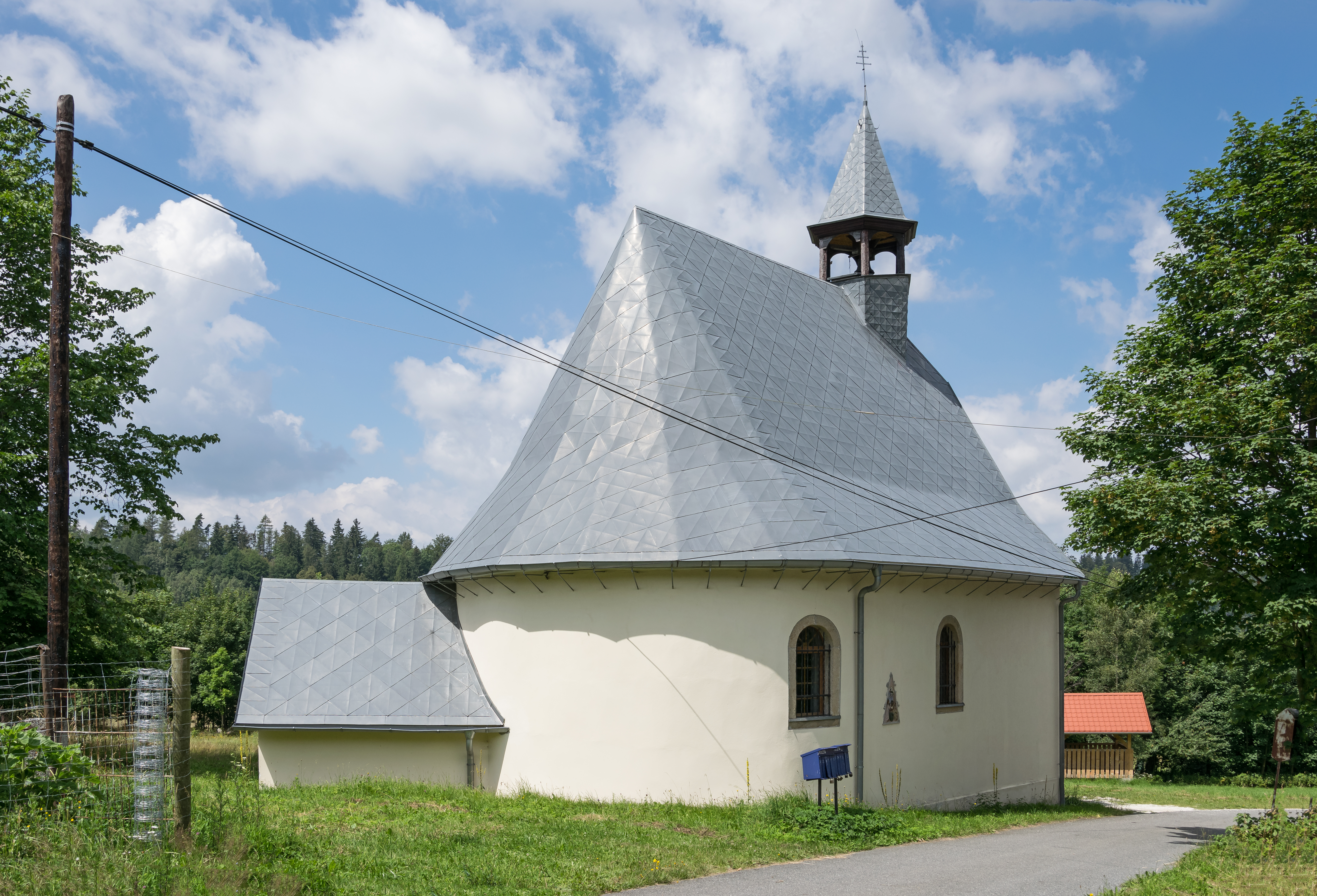 Sacred Heart chapel in Kamienna